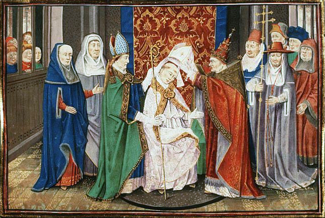 St Hubert of Liège is consecrated bishop by Pope Sergius. Contents: Hubert le Prevost, Vie de St. Hubert Place of origin, date: Bruges, David Aubert (scribe), Loyset Liédet (illuminator); 1463 Material: Vellum, ff. 76, 323x244 (204x150) mm, 22 lines, littera hybrida (lettre bourguignonne), Binding: 18th-century brown leather; gilt Decoration: 13 miniatures (115/100x150 mm), 1 historiated initial (38x42 mm; coat of arms), decorated initials (9v, 10v, 11v, 12v, 13r, etc) Provenance: made in 1463 for Philip the Good (d. 1467), Duke of Burgundy; remained in the ducal Library till the 17th century (mentioned in the inventories of 1467, 1487, 1536, 1577, 1598 and 1614). Disappeared after 1643. H.-N. de Villenfagne d'Ingihoul, Bruxelles (d. 1826).Purchased in 1826 by King William I of The Netherlands and placed in the Koninklijke Bibliotheek